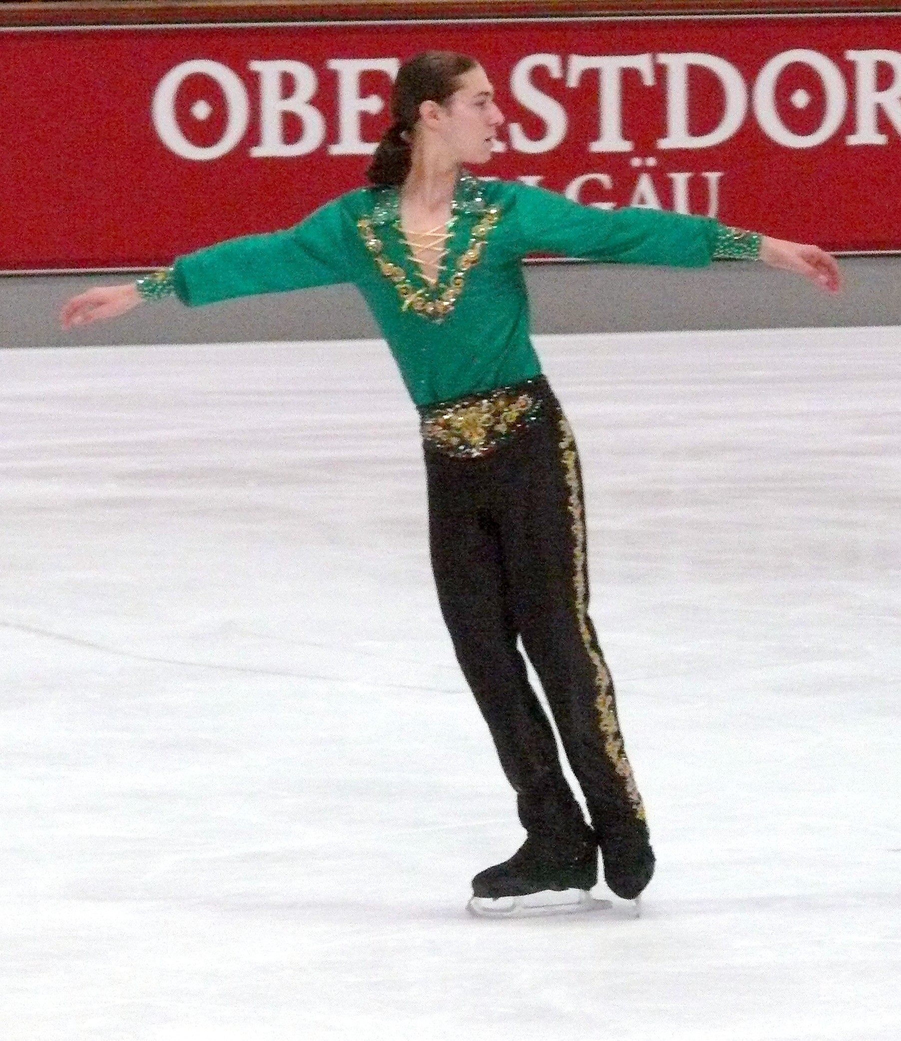 Jason Brown (USA) at the Nebelhorn Trophy 2013 in Oberstdorf / Bavaria / Germany